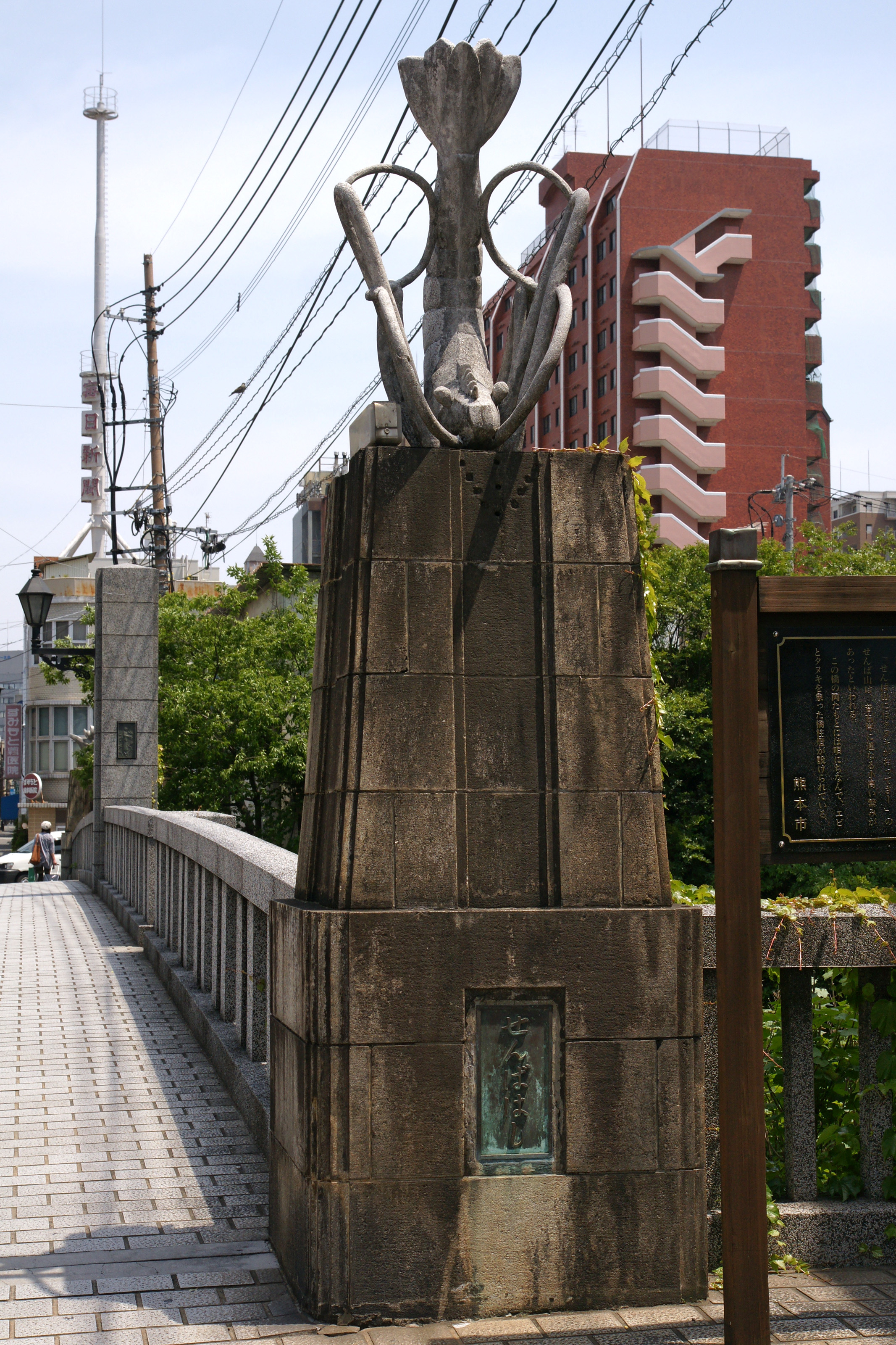 Senbabashi (Senba bridge), Kumamoto, Kumamoto prefecture, Japan